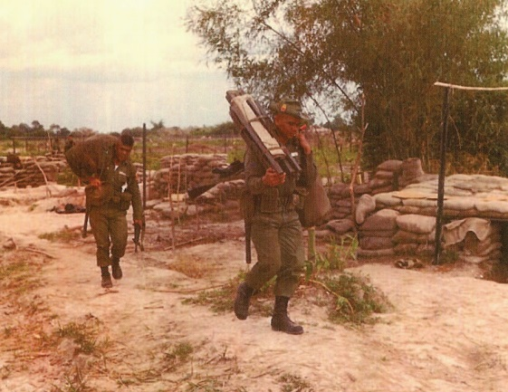 Philippine Civic Action Group (PHILCAG) arrives in Tay Ninh, South Vietnam. Courtesy National Archives, photo no. SC-36897